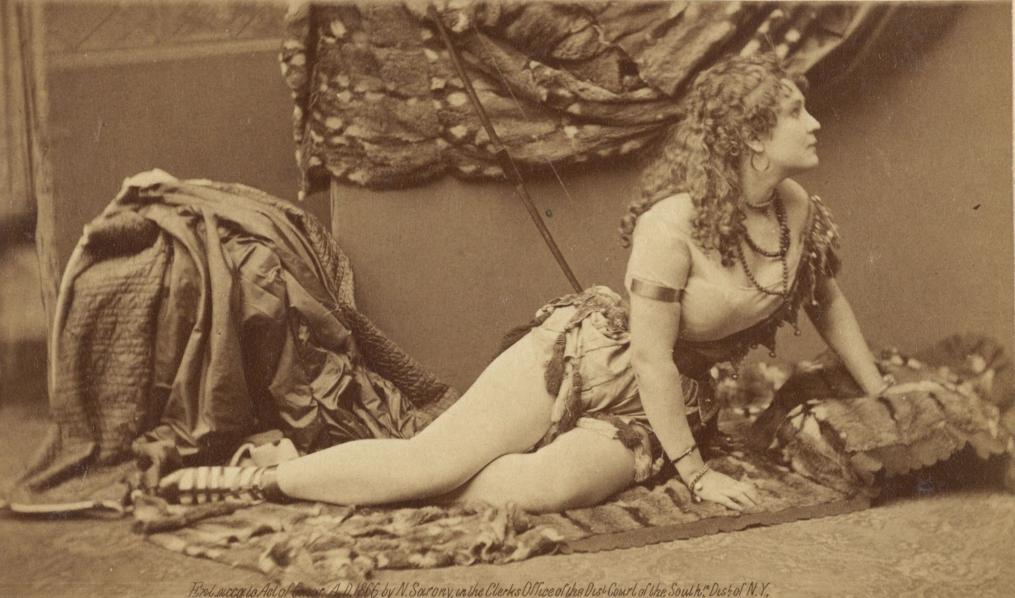 Cabinet card image of actor Adah Isaacs Menken (1835-1868), dated 1866. Cropped from original scan. TCS 19, Harvard Theatre Collection, Houghton Library, Harvard University